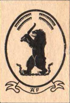 Sealing label of the Philatelic Society of Petrozavodsk from 1943.